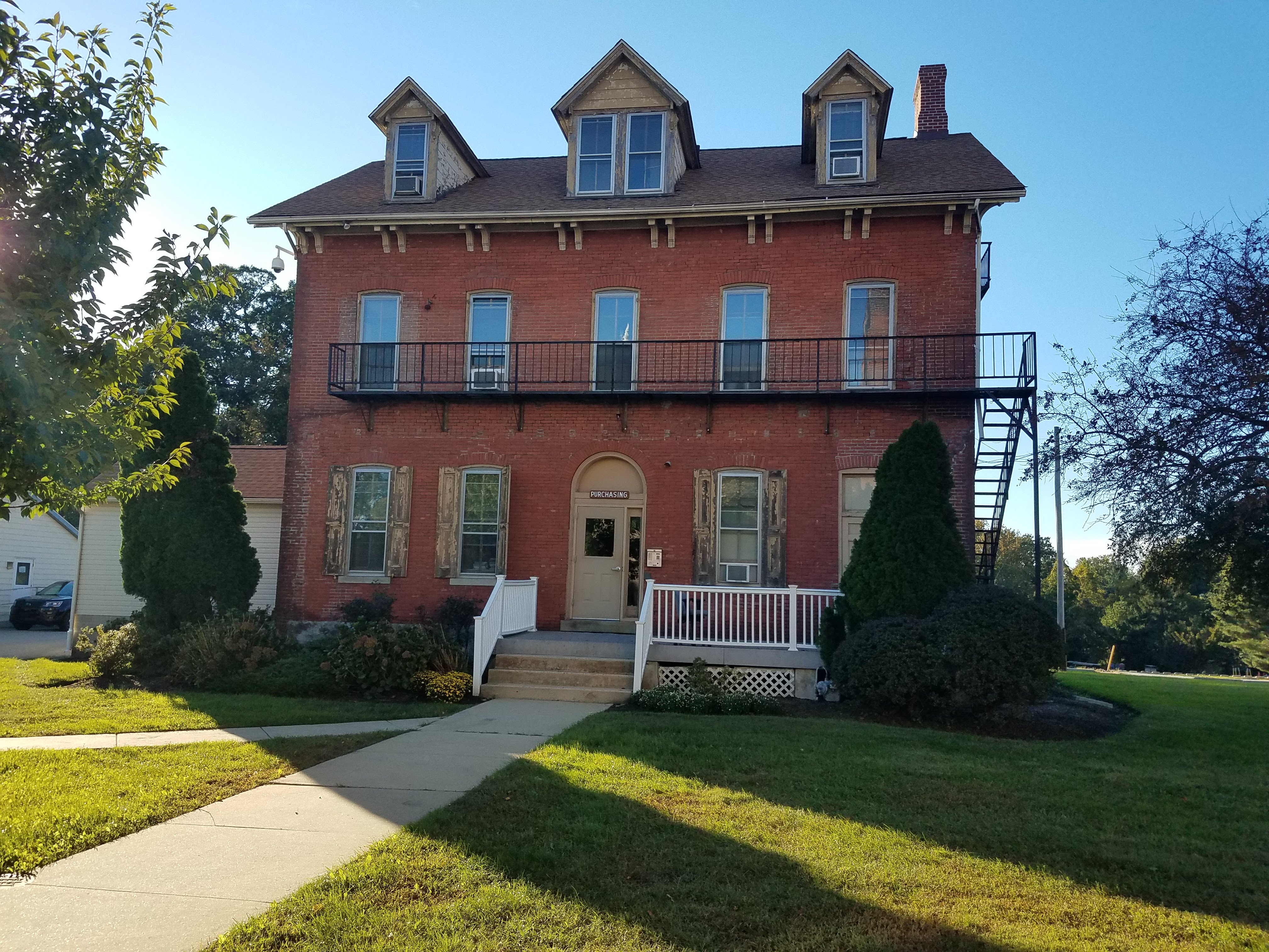 Vedder House, part of the Crozer Theological Seminary campus in Chester, Pennsylvania. Photo taken Oct. 2018.